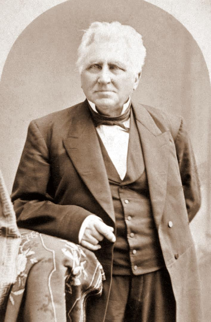 William McKendree Gwin